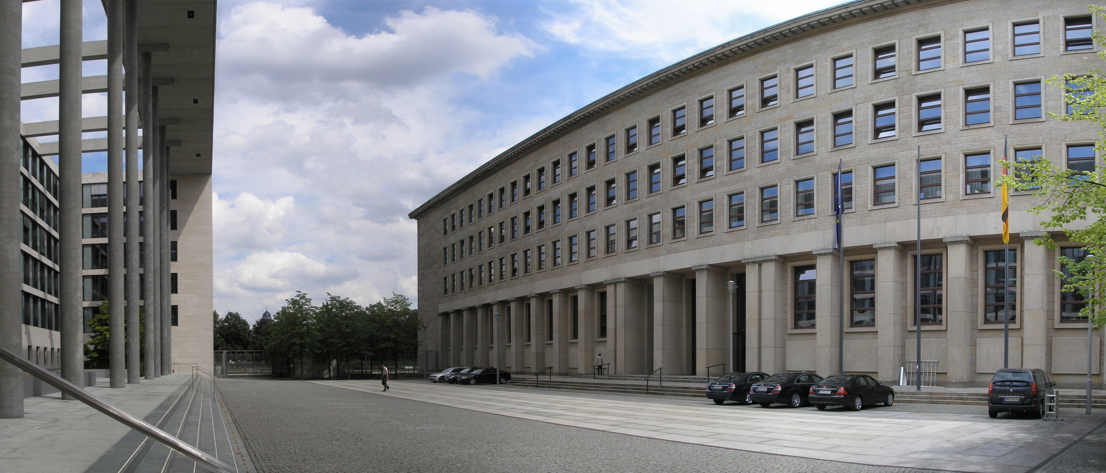 Main court of the Foreign Office in Berlin, the so-called Protokollhof in between the new and the old building.